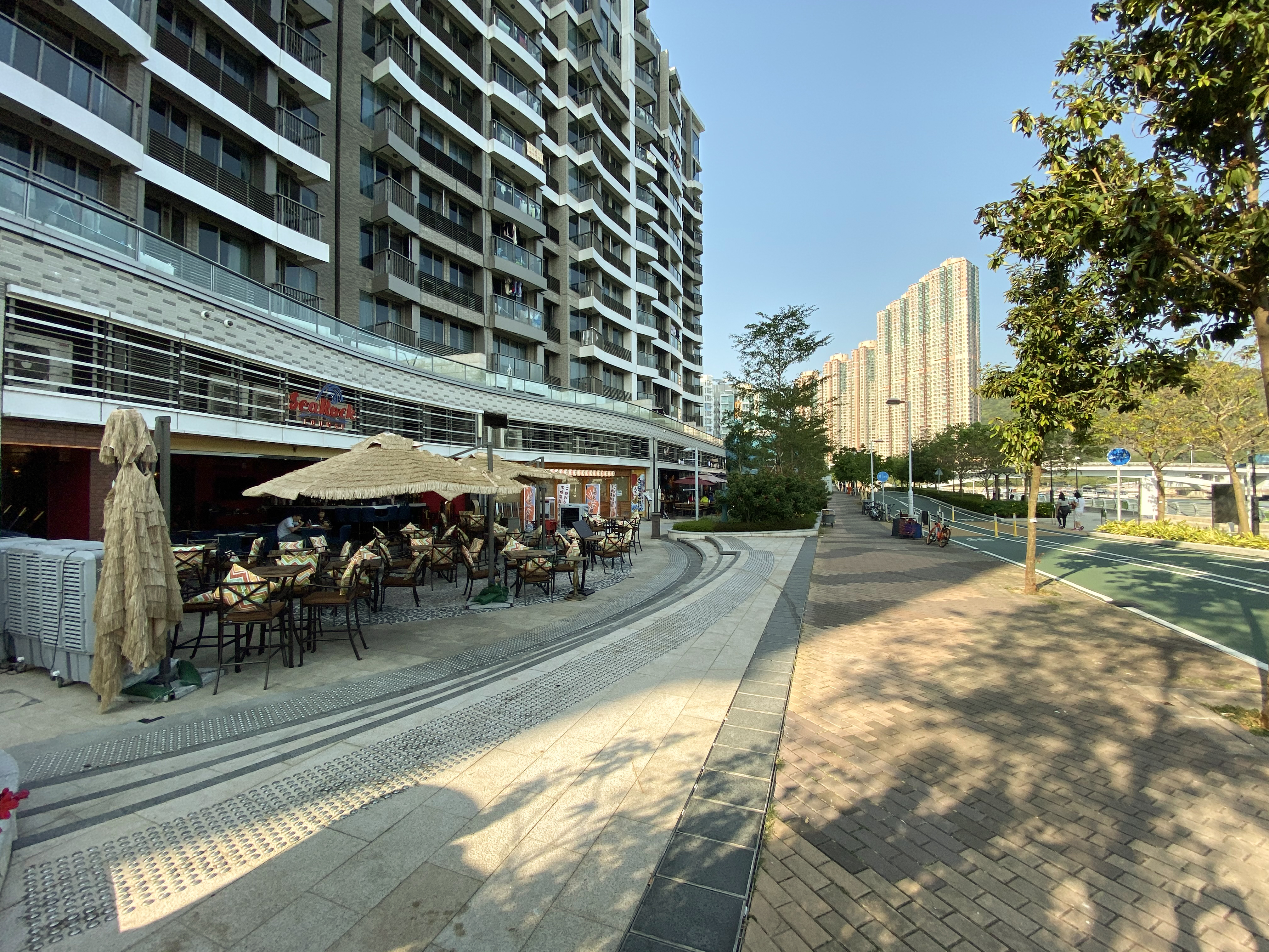 Papillons Square Waterfront shops